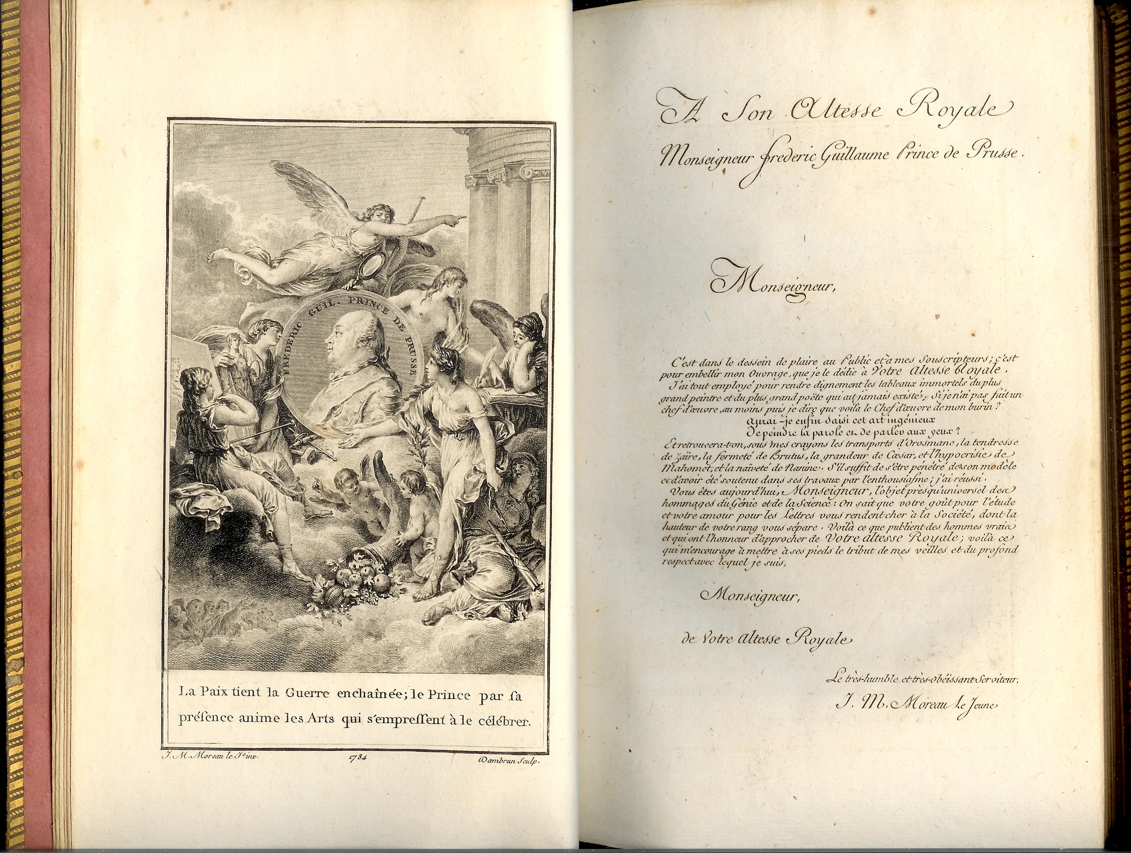 Dedication Oeuvres de Voltaires by Jean-Michel Moreau